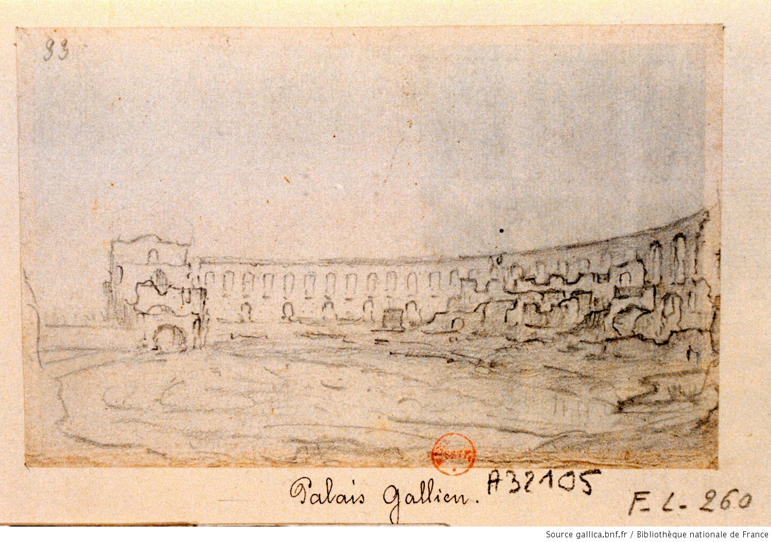 Drawing, Bordeaux region by Hermann van der Hem.